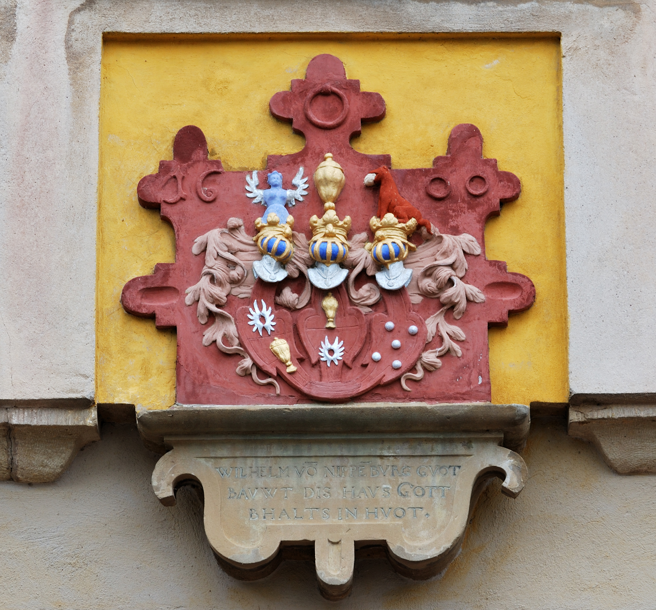 Coat of arms above the entrance to the manor house Nippenburg castle near Schwieberdingen in Southern Germany.